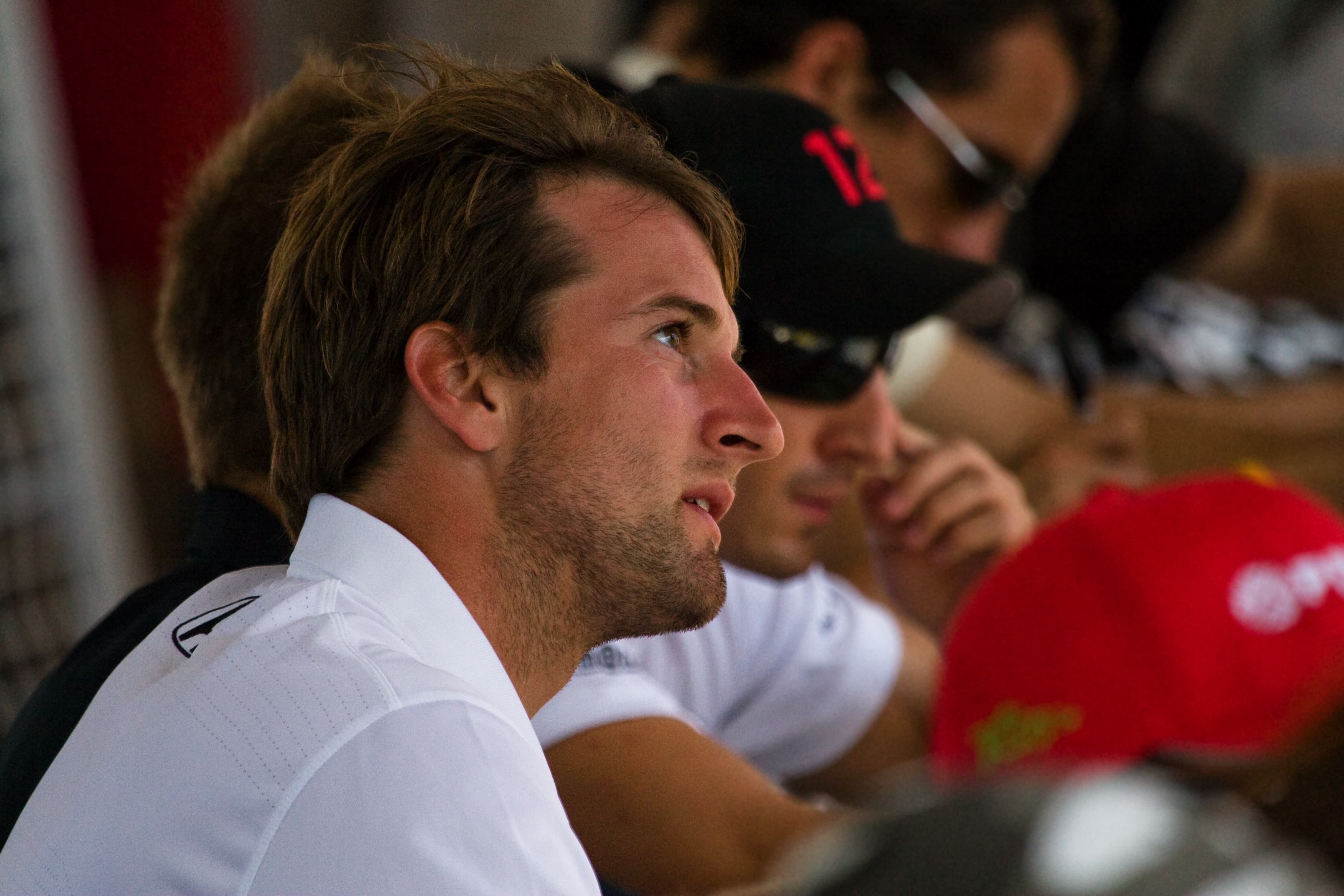 A. J. Foyt, Jr. at an Indy Racing League event at Texas Motor Speedway